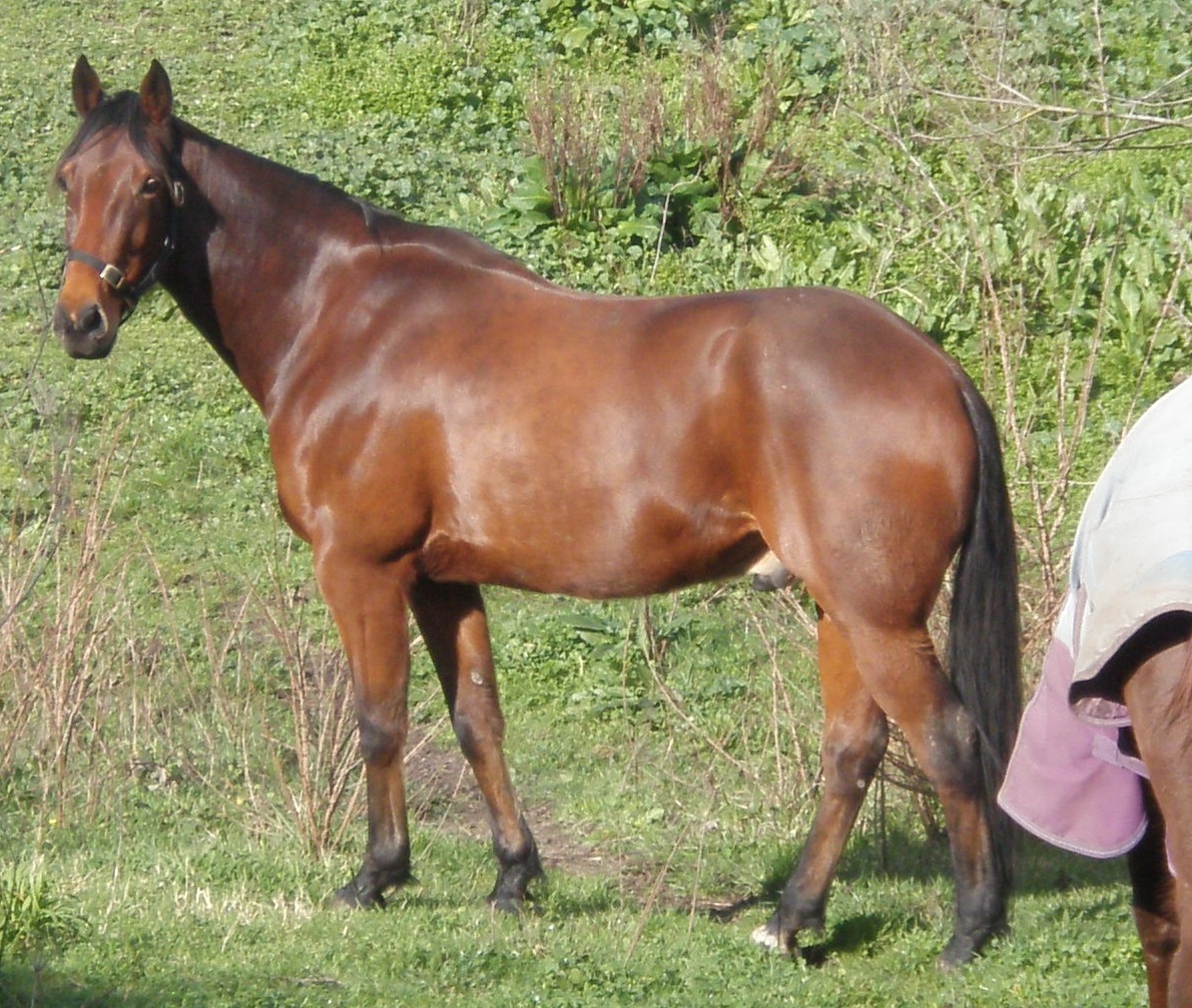 The Standardbred horse can be considered a hunter type due to its well carried head, angled shoulders, and strong legs with powerful hindquarters. This breed can look very attractive when well turned-out.